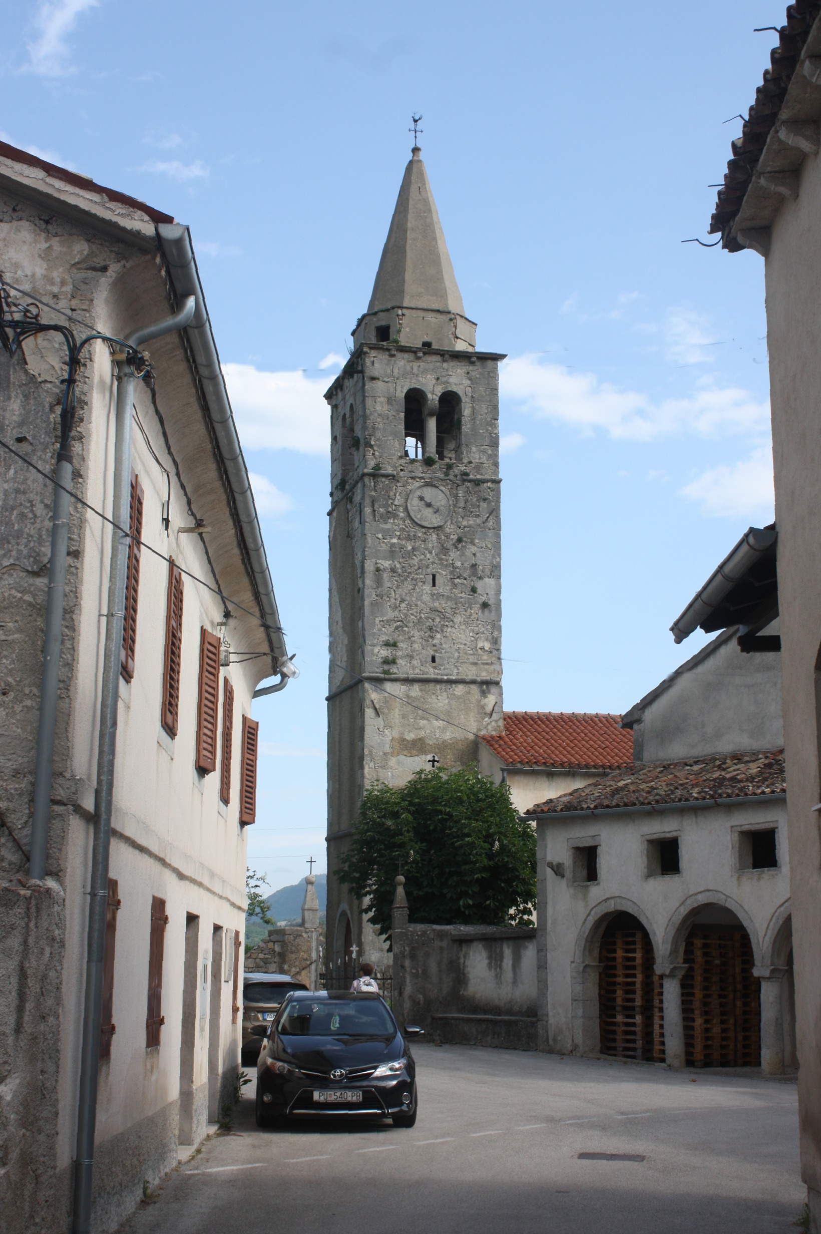 Boljun (Lupoglav), the Saints Cosmas and Damian church